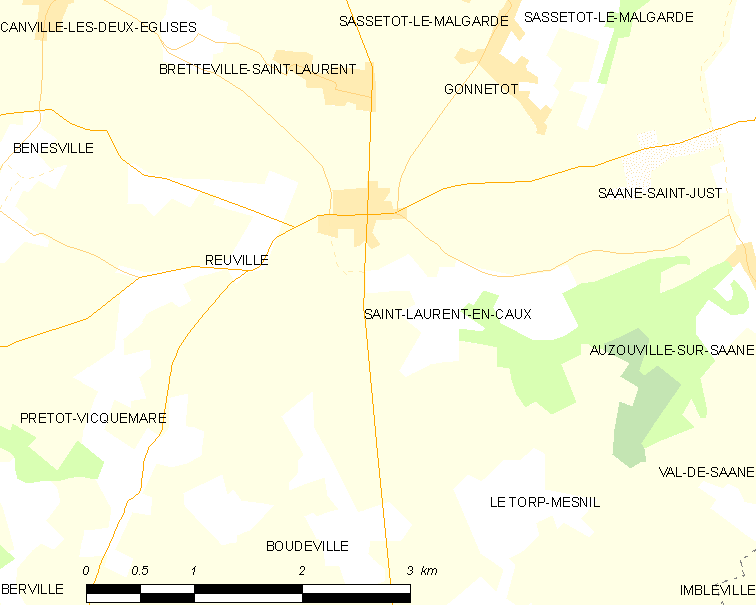 Map of French municipality Saint-Laurent-en-Caux